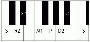 Musical notes of the Kharaharapriya ragam in Carnatic music shown in a keyboard layout. See swaras in Carnatic music for details on the notation used. In this image C is used as Shadjam for simplicity sake only. In Carnatic music any note can be the tonic note (sruti), which is taken as Shadjam note. This image is for use in Wikipedia ragam articles and articles related to Carnatic music.